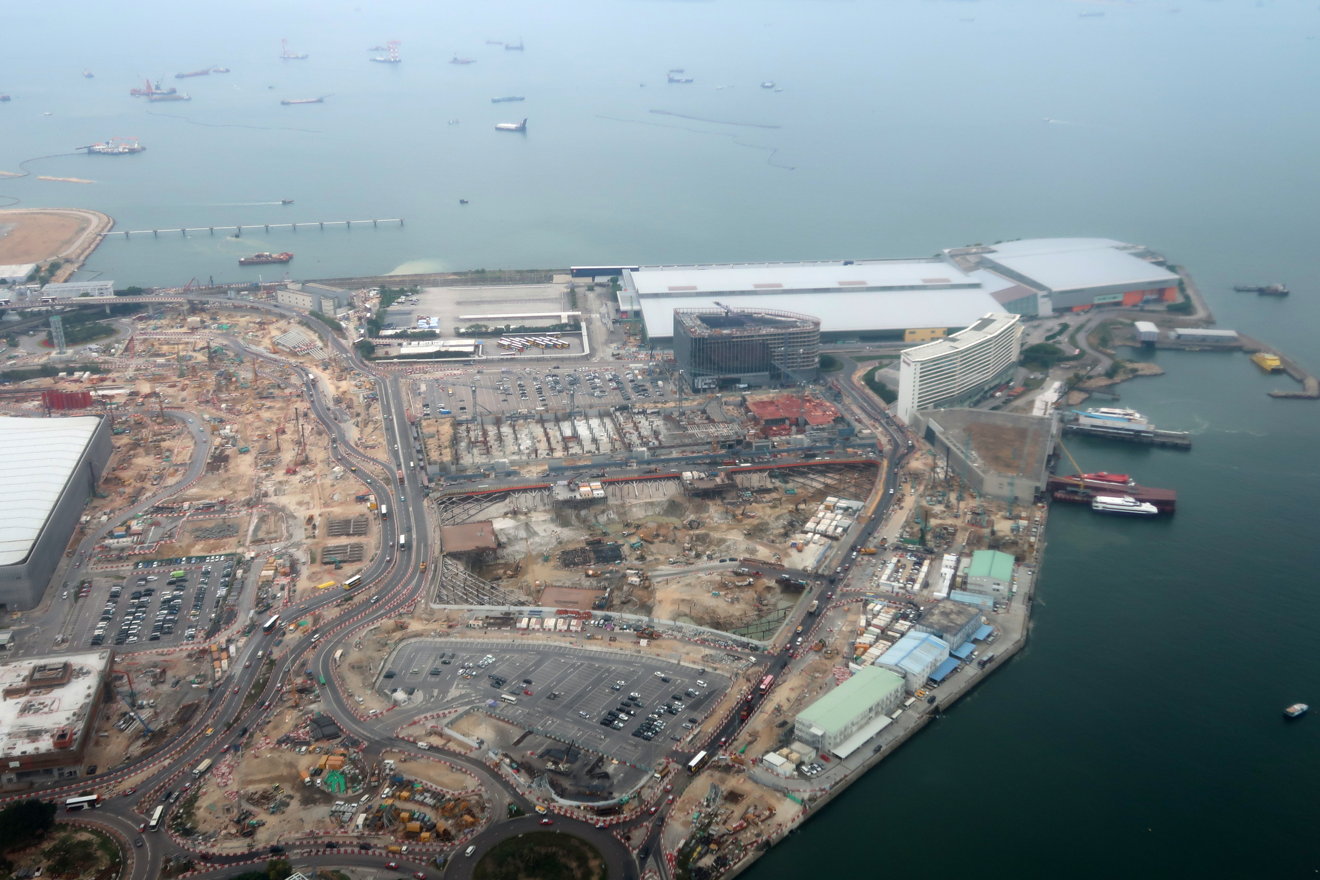 SkyCity Site overview